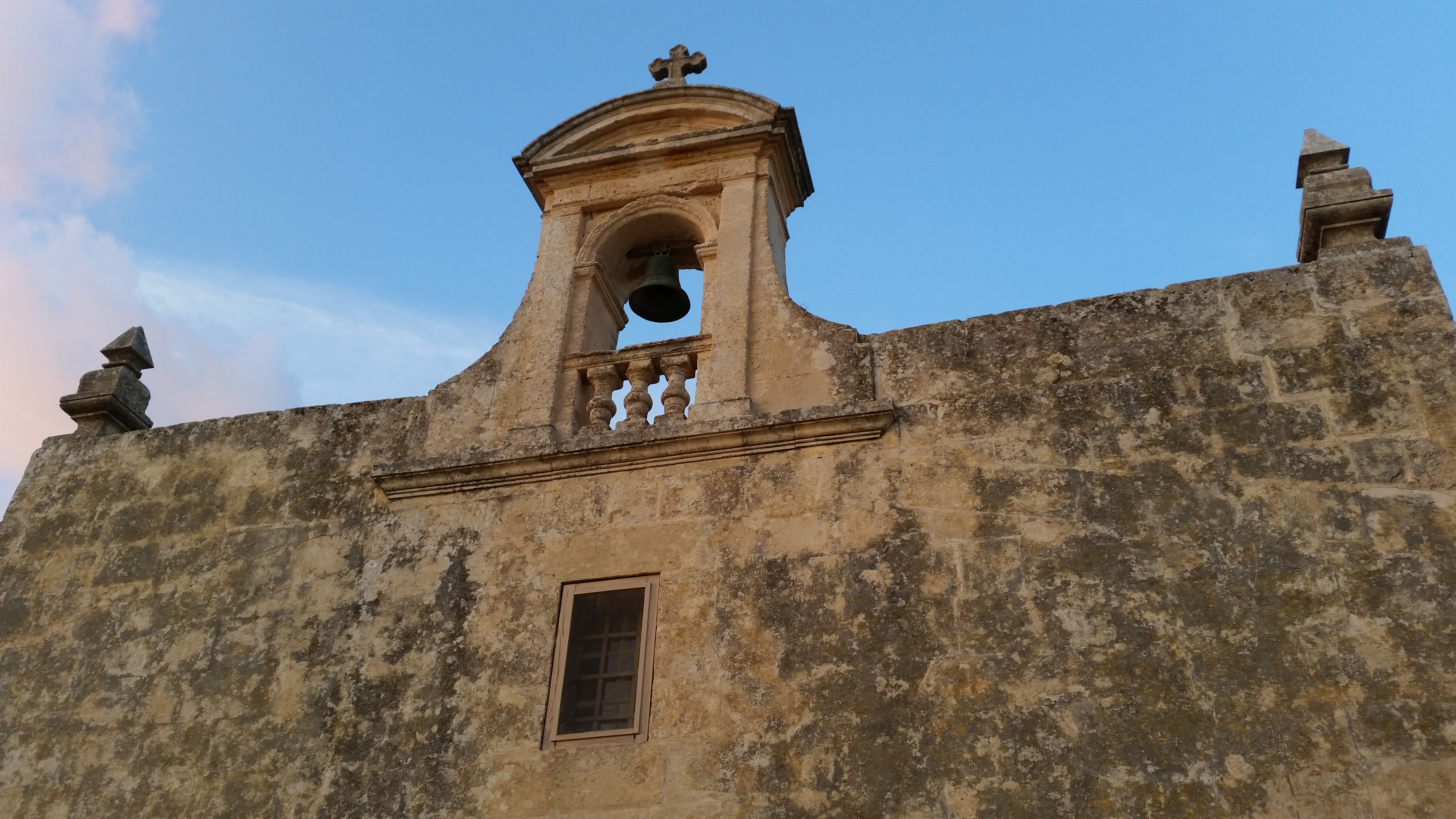 Church of the Assumption at Ħax-Xluq, Siġġiewi. This media is about Maltese cultural property with inventory number 02185.